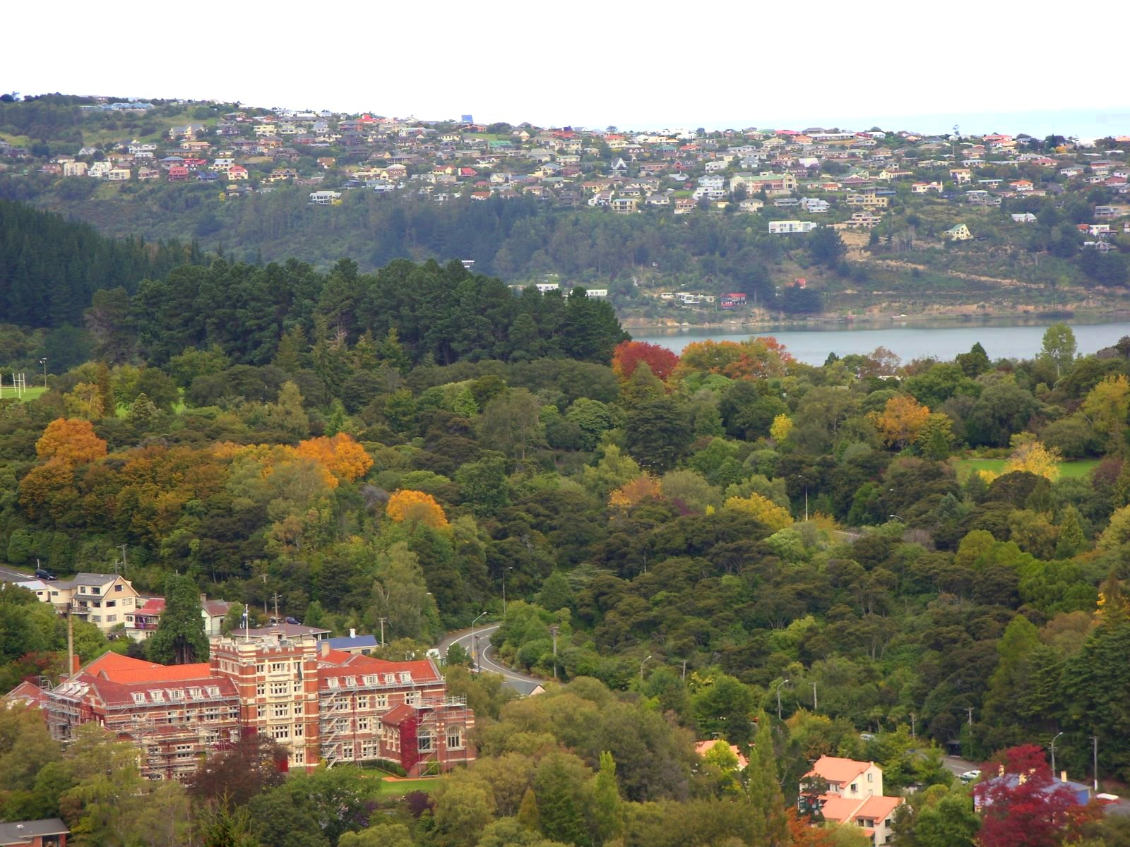 The Knox facade and Botanic Gardens on the South, with the Otago Peninsula and a sliver of harbour on the far side of the hill.